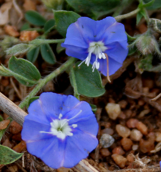 Dwarf Morning-glory Evolvulus alsinoides in Hyderabad , India.